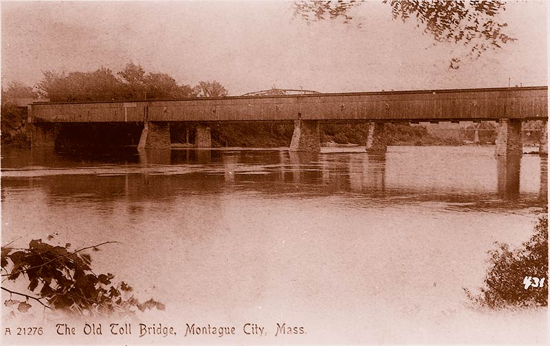 Montague City Covered Bridge, with the trolley bridge and the pre-reconstruction New York, New Haven and Hartford Railroad Bridge (now known as the Canalside Railtrail Bridge) in the background, crossing the Connecticut River at Montague, Massachusetts. Image taken from upstream on the west bank. Both the covered bridge and the trolly bridge were destroyed by the Flood of 1936, while the floating/destroyed covered bridge went down stream and knocked out two spans of the three span New York, New Haven and Hartford bridge. This image is of the bridge in much better condition, therefore earlier, and from a somewhat different angle than in File:Montague-City-Covered-Bridge.jpg.